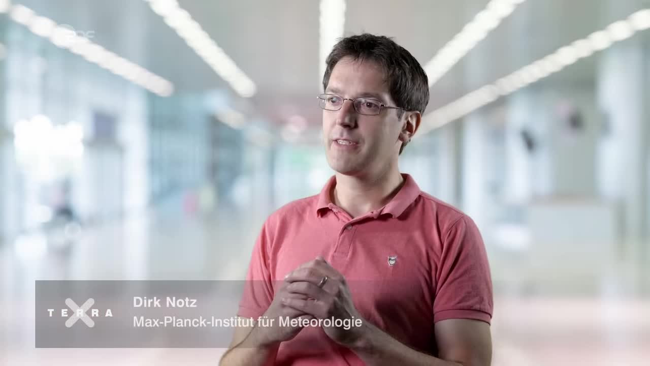 The climate scientist Dirk Notz